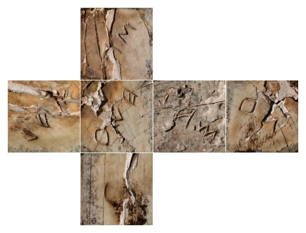 Etruscan dice from TuscaniaConserved at the Bibliothèque Nationale de France, Paris (inventory number Luynes 816)